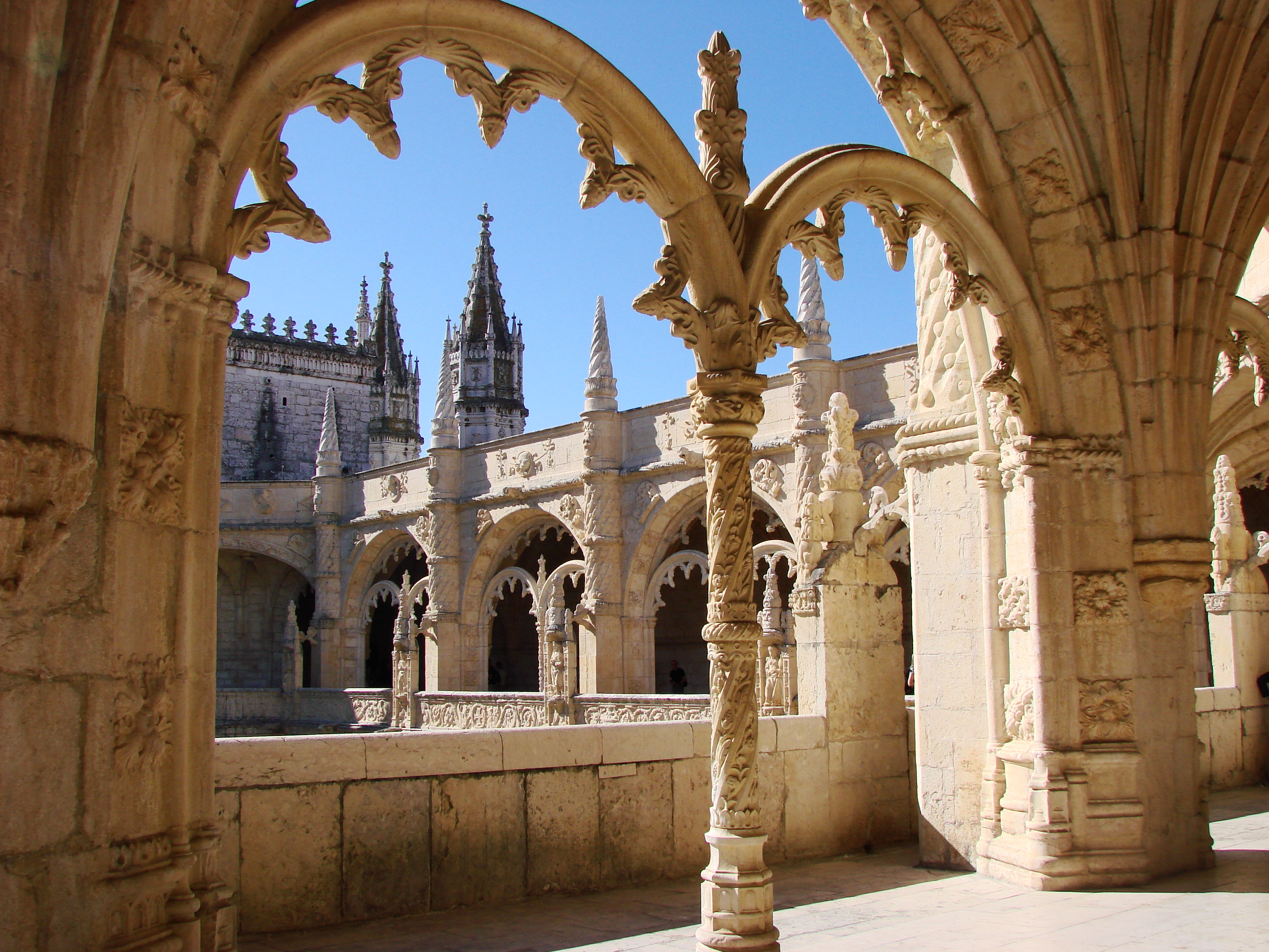 View from the Cloisters in the Jerónimos Monastery